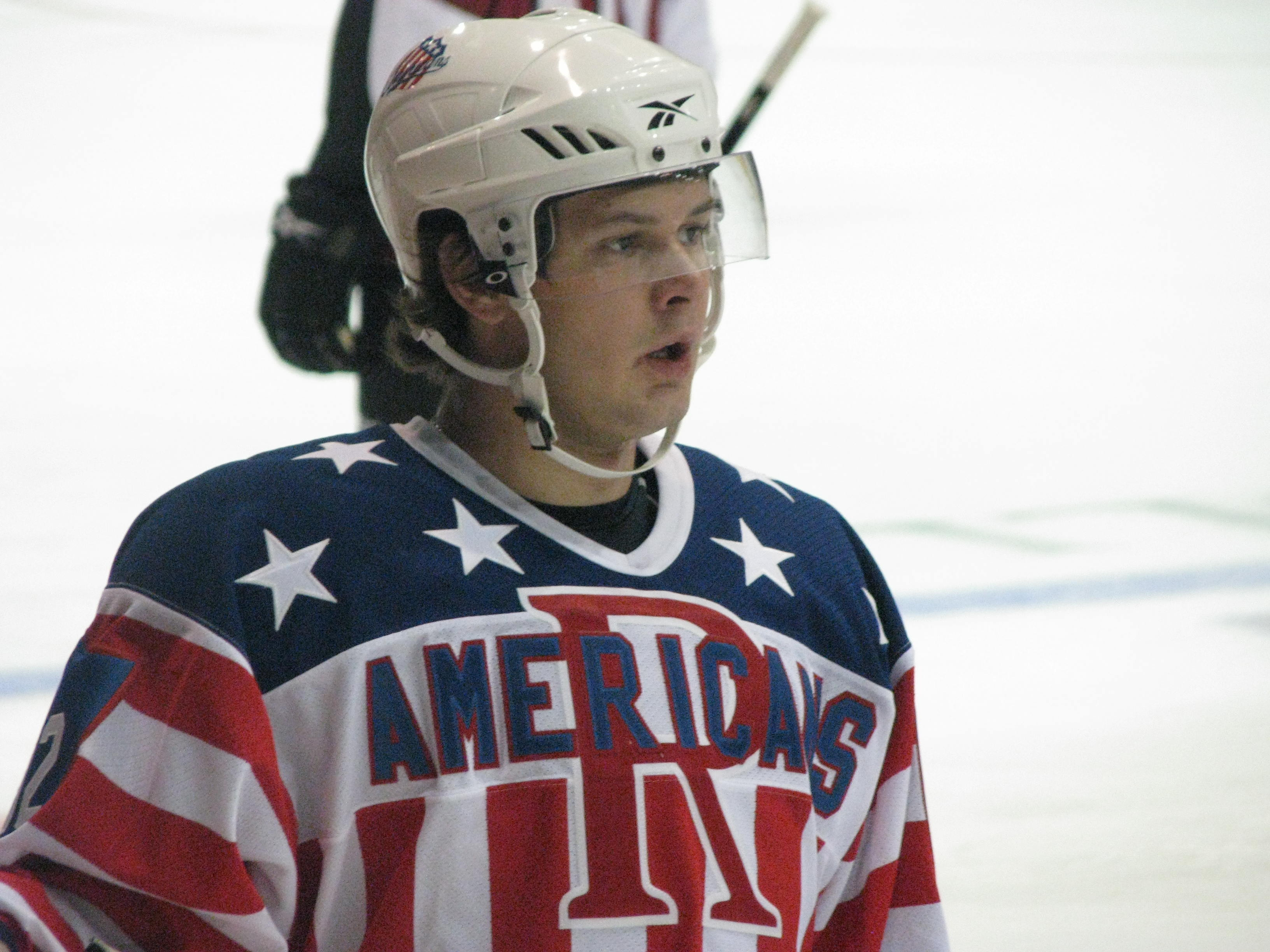 A photo of Evgeny Dadonov. Rochester Americans vs Lake Erie Monsters on October 3, 2009 at Blue Cross Arena.